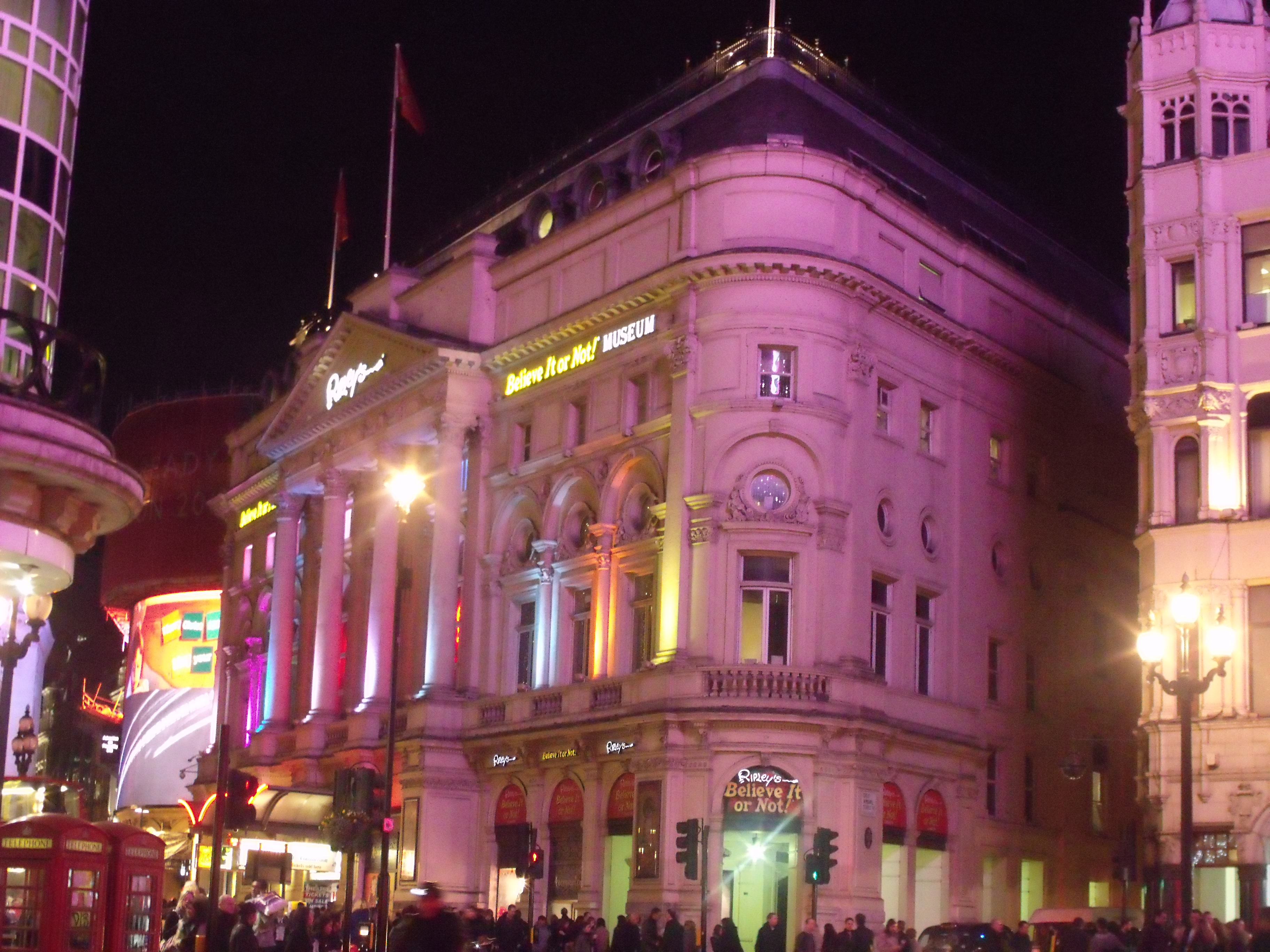 At Piccadilly Circus in London. Night shots of buildings and the fountain. This building is the home of the Ripley's Believe It Or Not! museum. Ripley's London is at The London Pavilion at 1 Piccadilly Circus. A Grade II listed building. The London Pavilion TQ 2980 NE CITY OF WESTMINSTER PICCADILLY, Wl 71/69 Piccadilly Circus (north side) 26.10.78 Nos. 1 to 7 (consec) THE London Pavilion (Including Nos. 2 to 8 (even) Shaftesbury Avenue. ) G.V. II Former theatre, now cinema. 1885 by Worley and Saunders, entirely rebuilt internally and converted to cinema use in 1934 by Nicholas and Dixon-Spain. Stucco faced, felted roofs. Eclectic classicism. 3 storeyed building on triangular site (lst floor with mezzanine). Symmetrical elevations with 9-window wide front to Circus and 11-window front to Shaftesbury Avenue both with central pedimented pavilions. Main entrance in podium of central pavilion to Circus with 2 storey giant engaged Corinthian column portico above. Ground floor arcaded between pilasters supporting brackets to 1st floor balustered balcony. 1st floor tall arcades, with mezzanine oculi in lunettes, supported on engaged slender Corinthian columns and dosserets. 2nd or attic floor with square windows above heavy moulded sill band. Infill treatment of porticoes a variant on the above. Great Windmill Street facade a plainer interpretation of the other two. Survey of London; Vol. XXXI The Theatres of London; Mander and Mitchenson. Ripley's London in the evening.